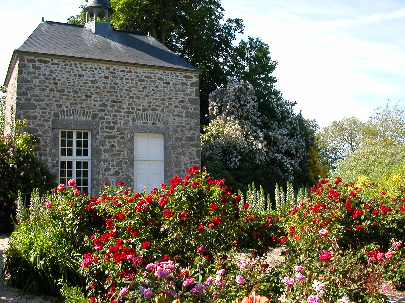 pigeonhouse in la ville bague